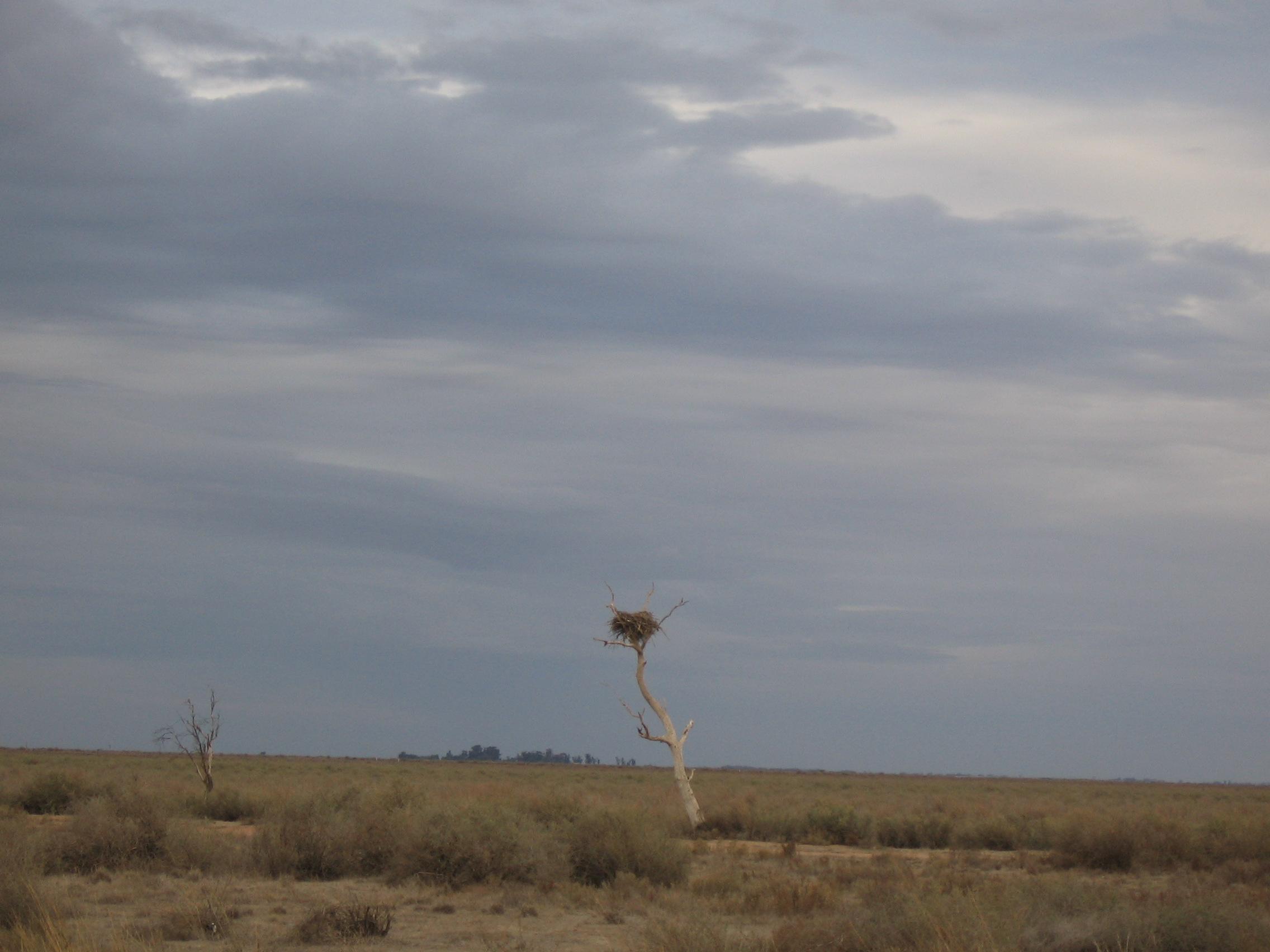 An eagle's nest in a dead tree on the Old Man Plain near Booroorban, New South Wales